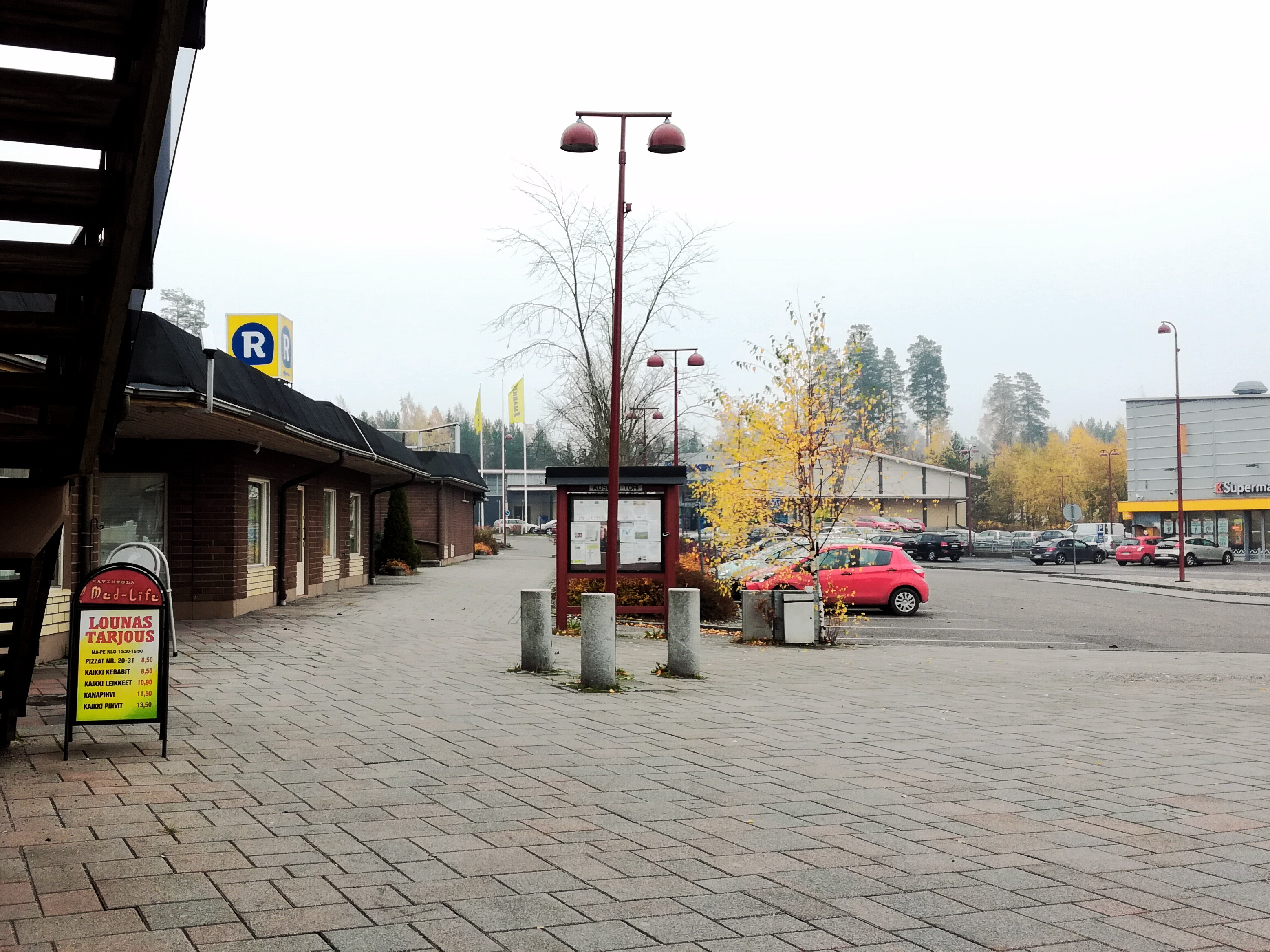 Veikkola area in northern Kirkkonummi